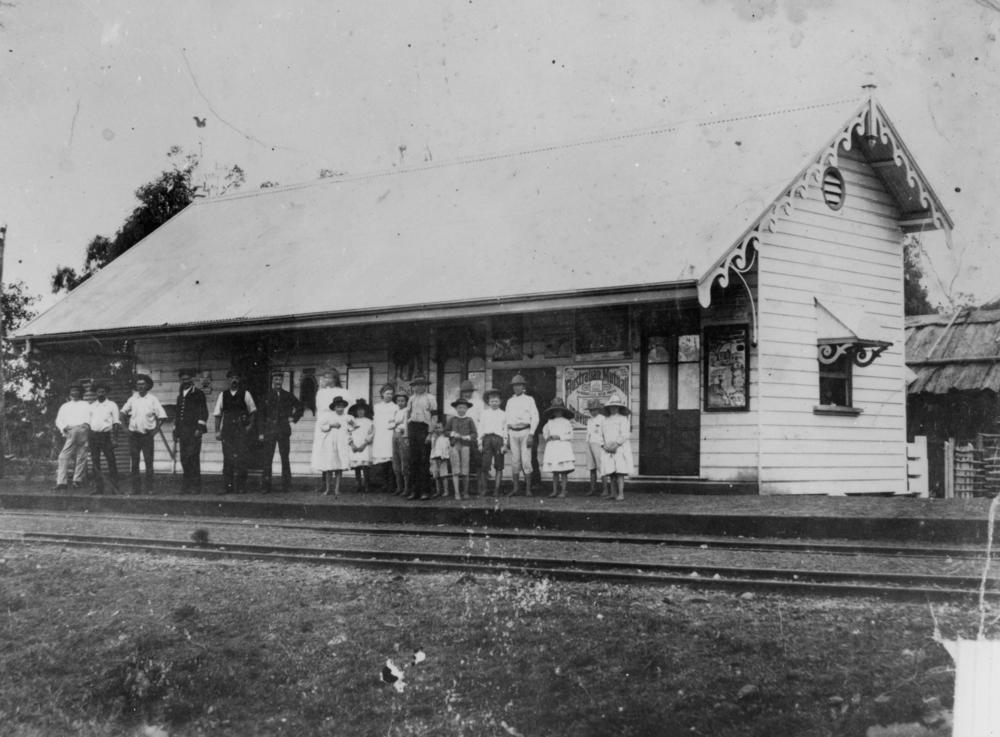 Laura Railway Station, Queensland, 1896. Railway employees and passengers on the platform of the Laura Railway Station, 1896.